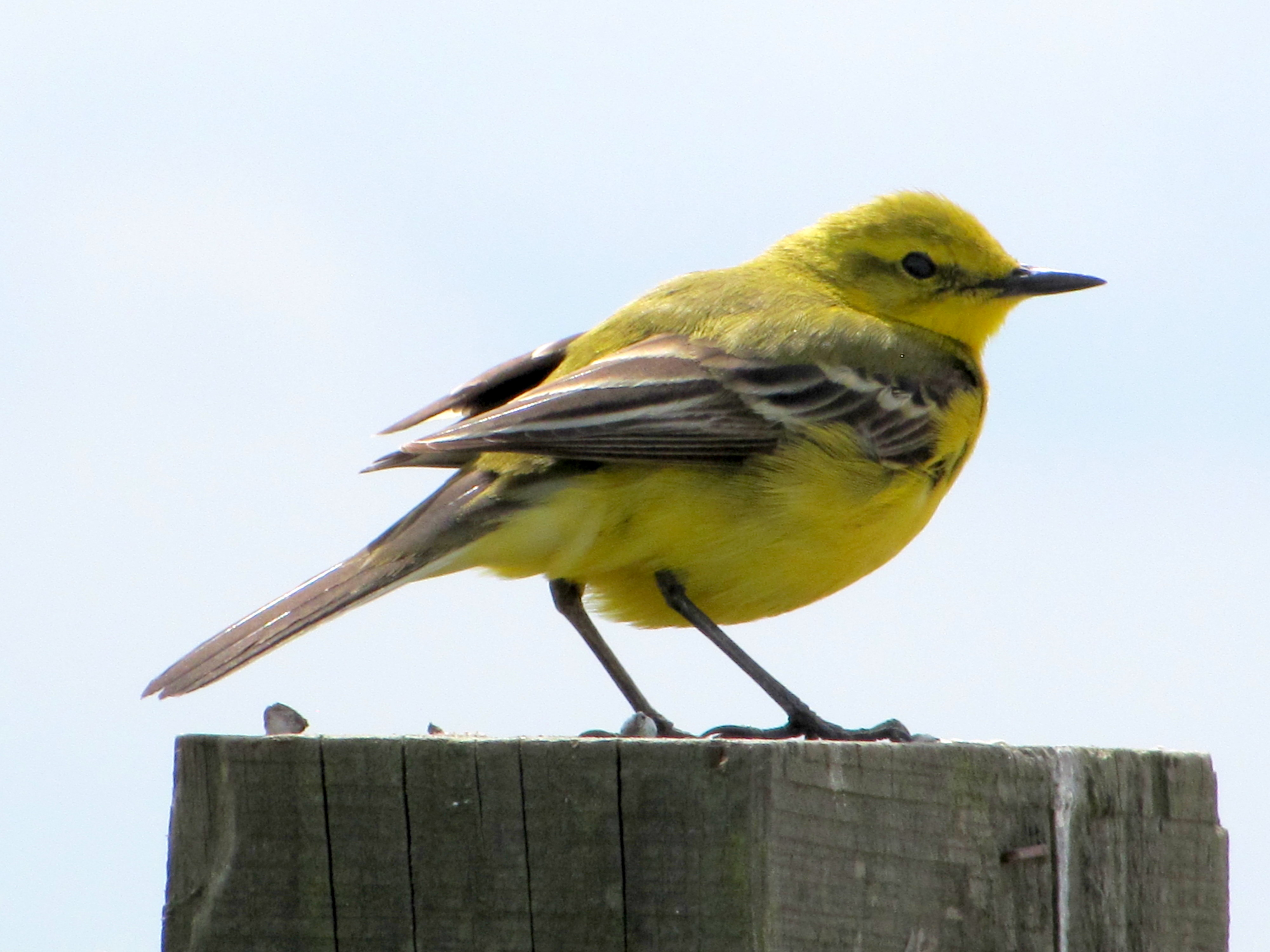 A male Yellow Wagtail in Wallasea Island, Essex, England.